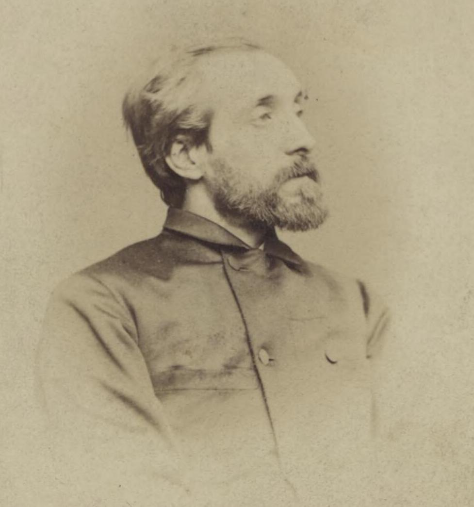 A portrait from the Welsh Portrait Collection at the National Library of Wales. Depicted person: Hugh Owen Thomas – Welsh surgeon